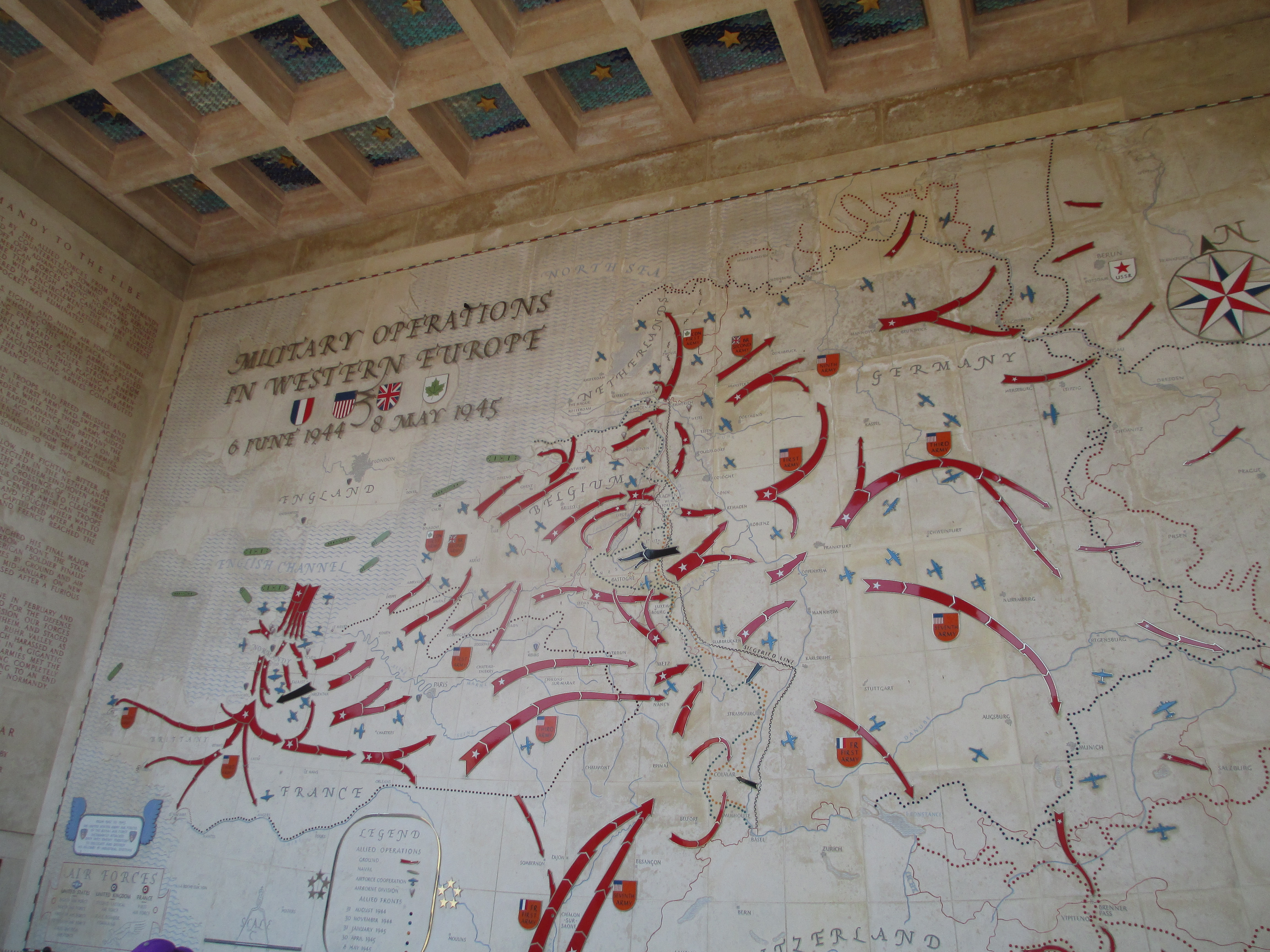 Normandy American Cemetery and Memorial